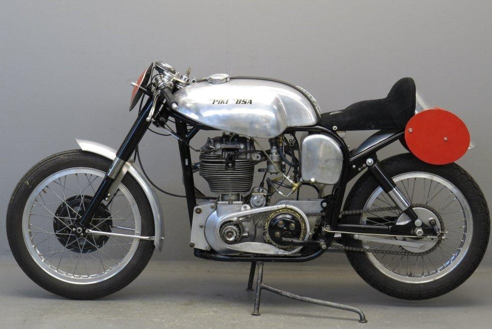 1952 Roland Pike BSA ZB34 350cc-racing motorcycle